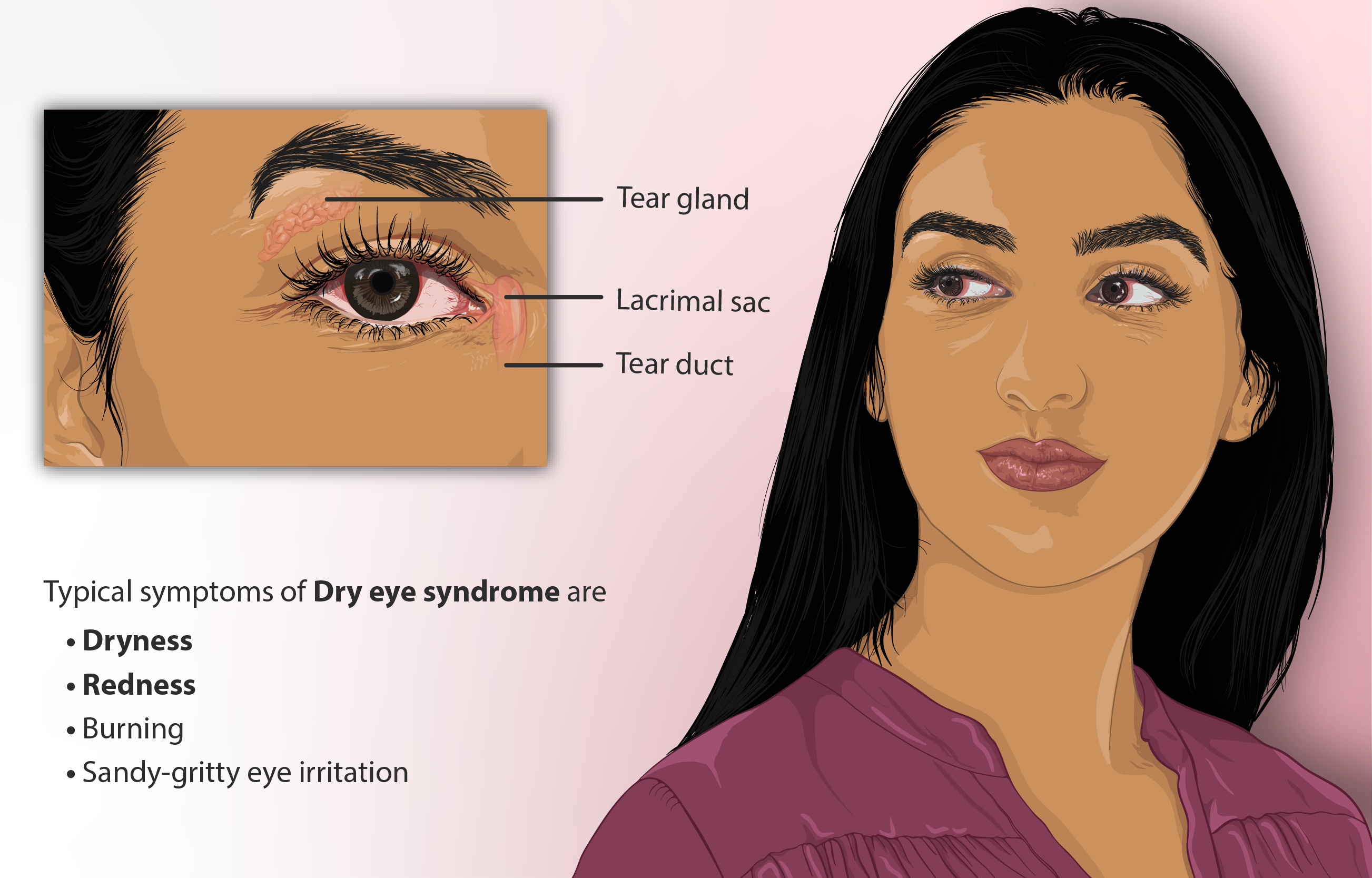 Depiction of a person suffering from Dry Eye Syndrome. The typical symptoms of Dry Eye Syndrome have been depicted.